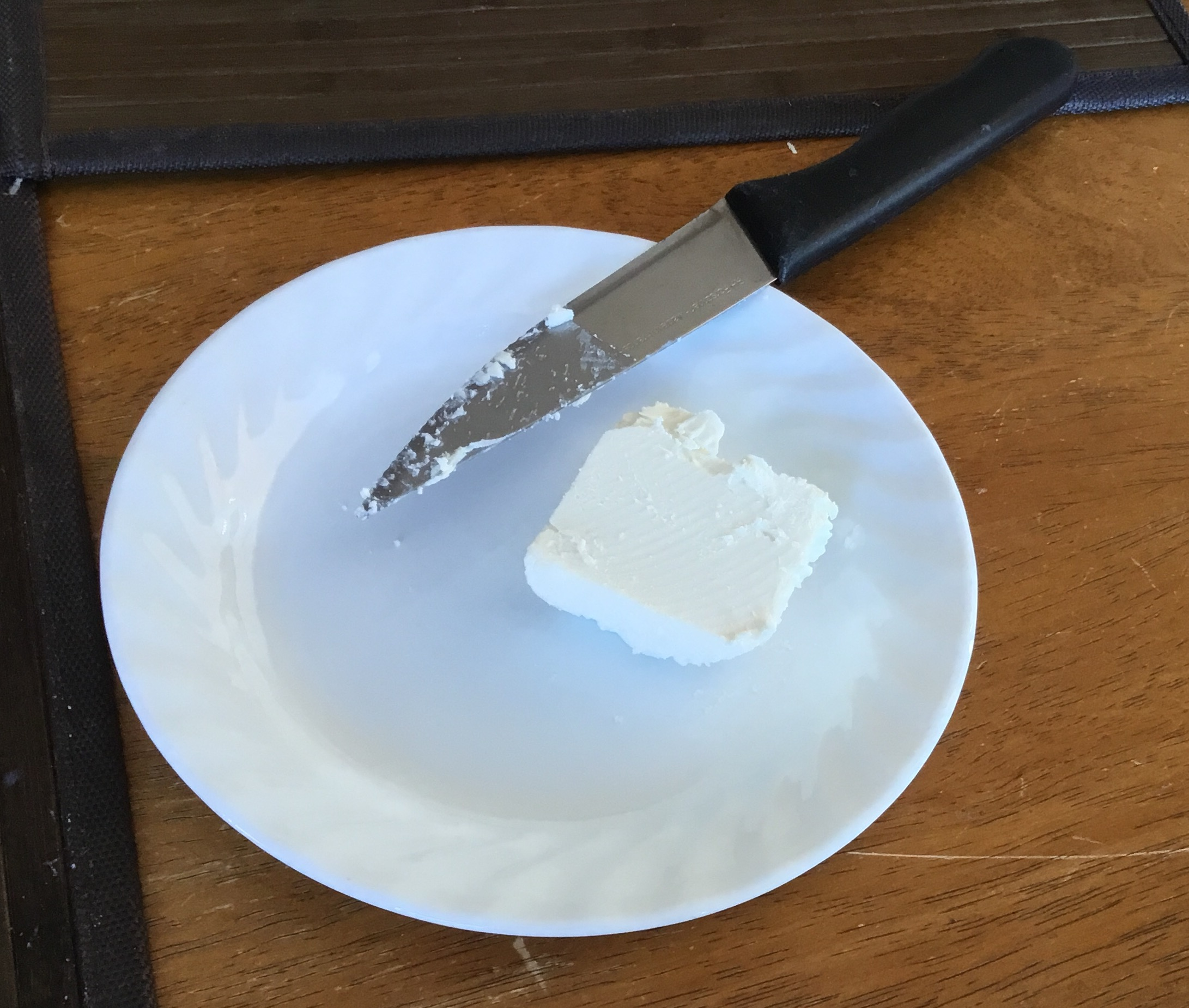 Domiati cheese on a plate